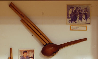 A Cambodian musical instrument called a ploy or a regional variant.